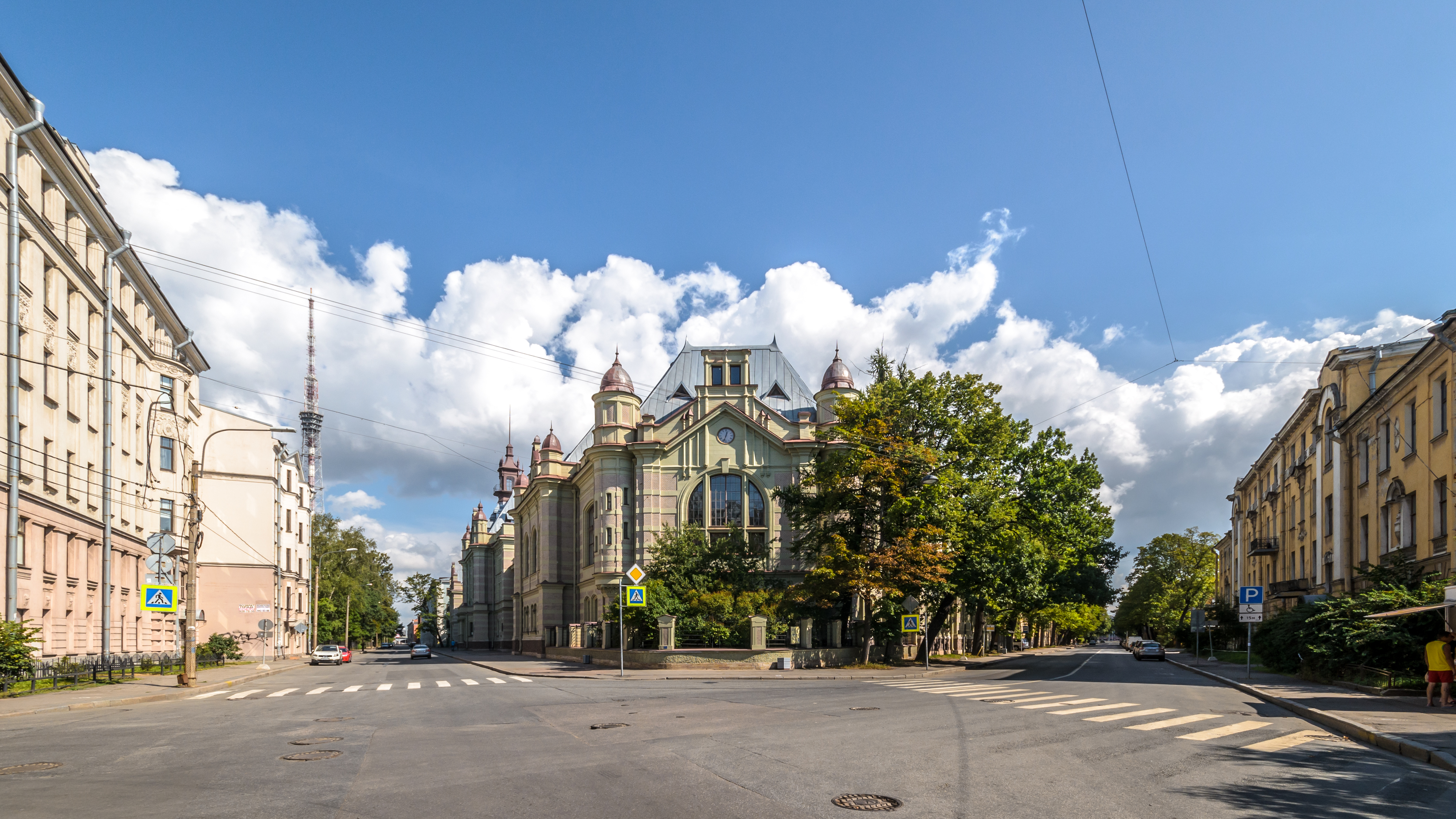 Electrotechnical University in Saint Petersburg